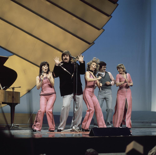 Fredi & Ystävät at a rehearsal for the Eurovision Song Contest 1976.